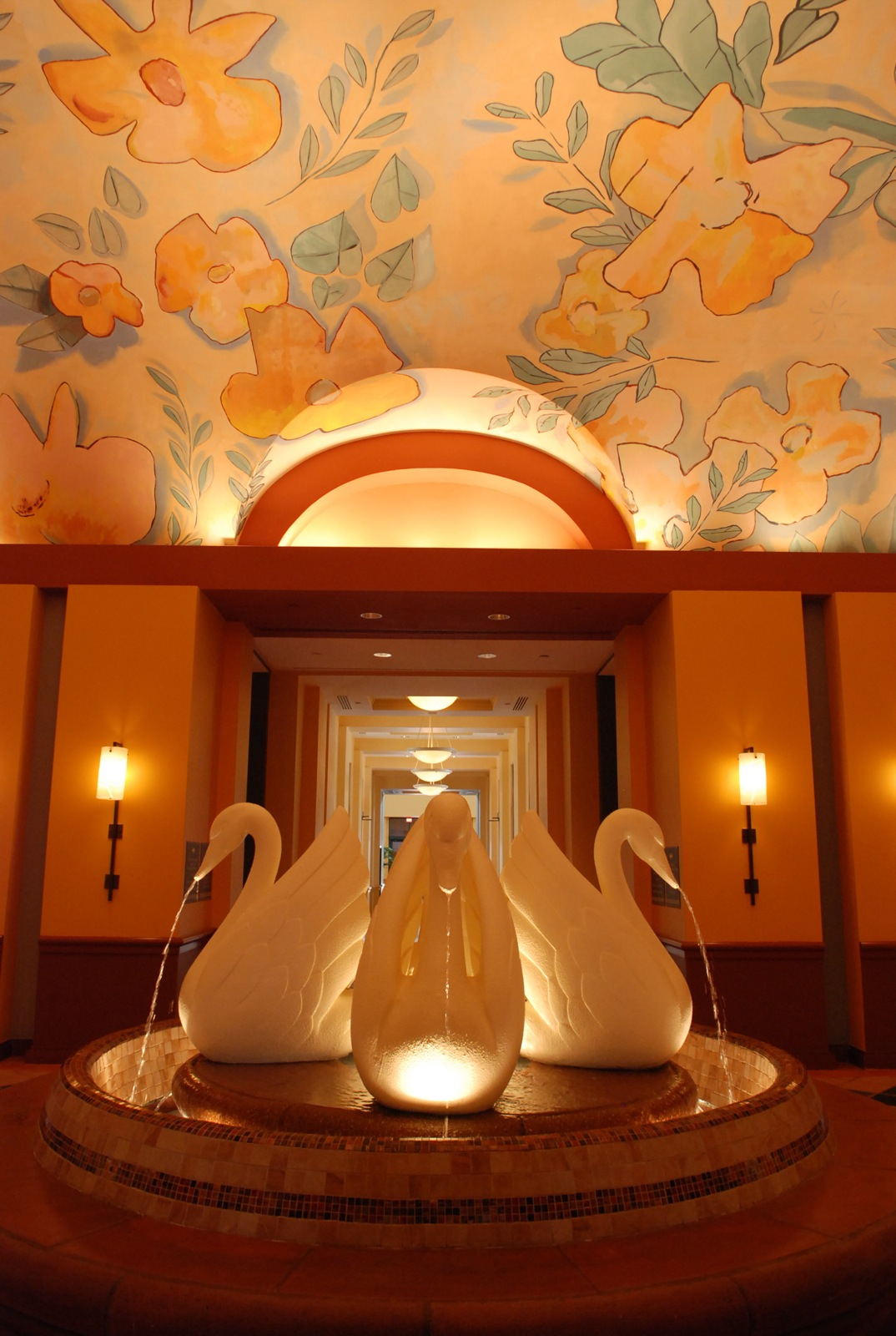 Swans in the Walt Disney World's Swan Hotel